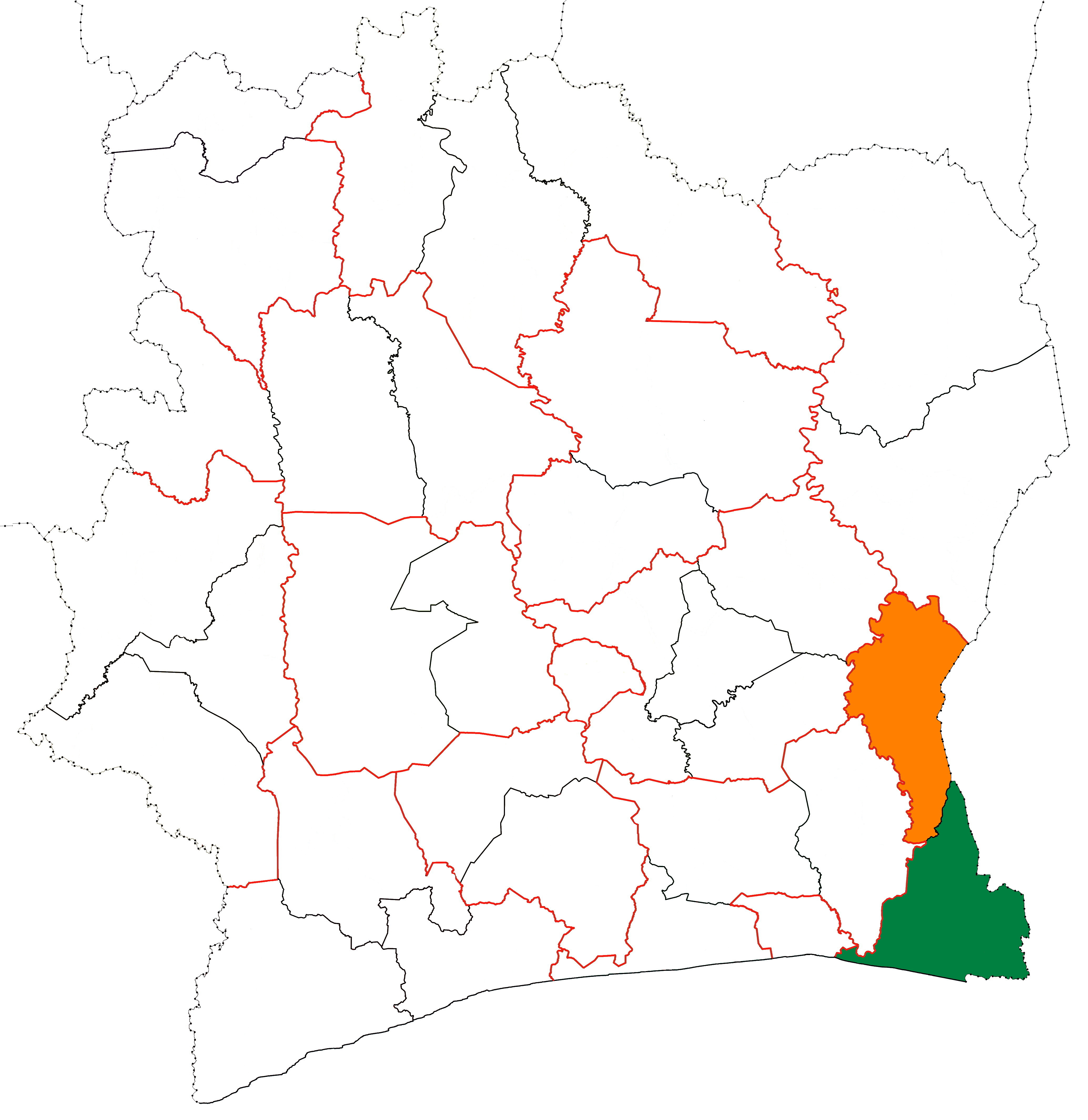 The location of Sud-Comoé region (green) in Côte d'Ivoire. The other shaded areas represent the other parts of Comoé District.